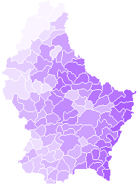 A map of communes of Luxembourg after mergers of 2006-01-01, colour-coded by the altitude of the lowest point in the commune. The altitude is denoted by eight different shades of purple; in order of increasingly darker shades, the lower bounds (in m) are: 325, 300, 275, 250, 225, 300, 150, 0.